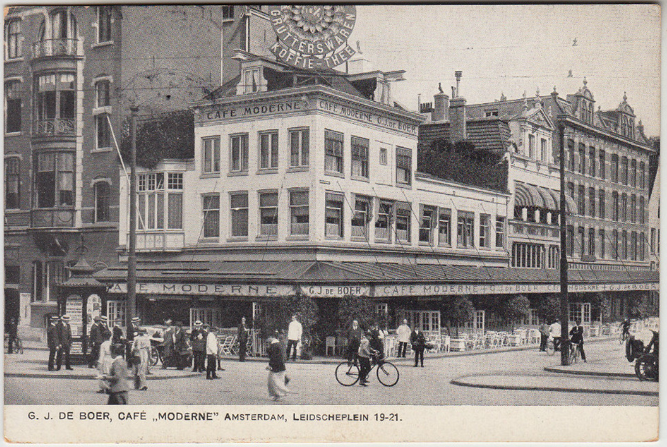 Old postcard of Amsterdam.